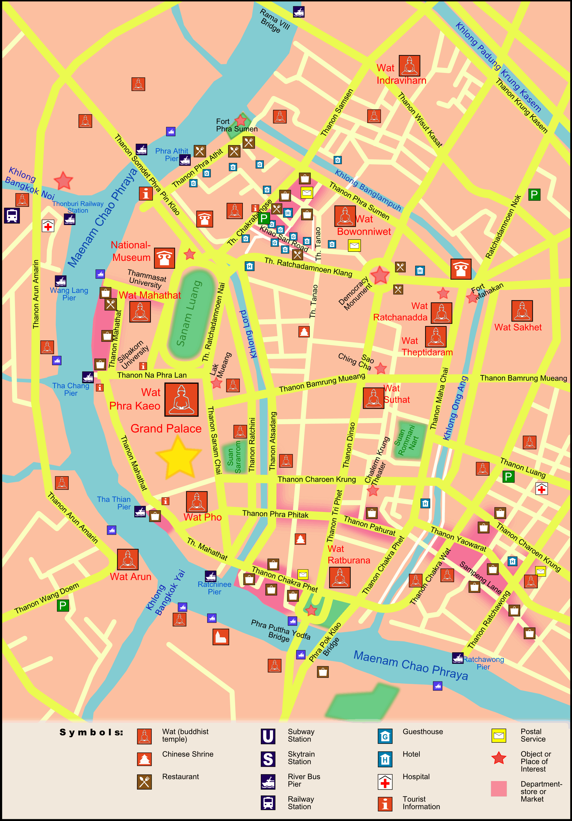 Map of "Rattanakosin Island", the "old city" of Bangkok, Thailand.